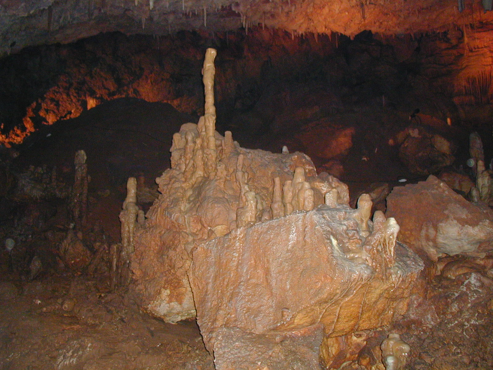 SPELEOSEISMITE: Collapsed ceiling block from the Soreq Cave in Israel, with post-collapse stalagmites growing on it.